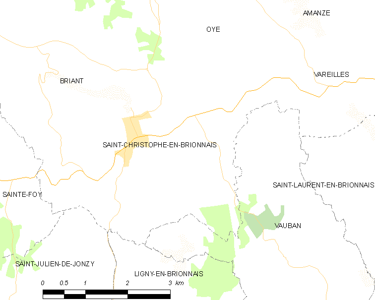 Map of French municipality